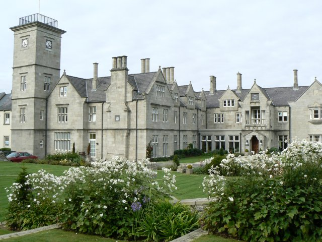 Henllys, the Anglesey home of HPB Originally a mansion house, this building was later for several years in the 1950s a Franciscan Friary until the monks found they were unable to meet the costs of its maintenance. It was later extended and became a hotel which, despite developing an 18-hole golf-course in its grounds, was never financially successful. After lying empty for some years it was bought by Holiday Property Bond, who converted and conserved the former mansion into 25 self-catering apartments and constructed 63 cottages and apartments in the grounds for the use of bond-holders. One wonders what the monks might make of their old place now.